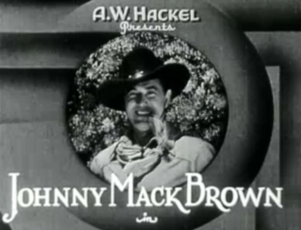 Low resolution screenshot of Dan Doran (Johnny Mack Brown) from the title sequence of the American western film Rogue of the Range (1936). The film is now in the public domain.